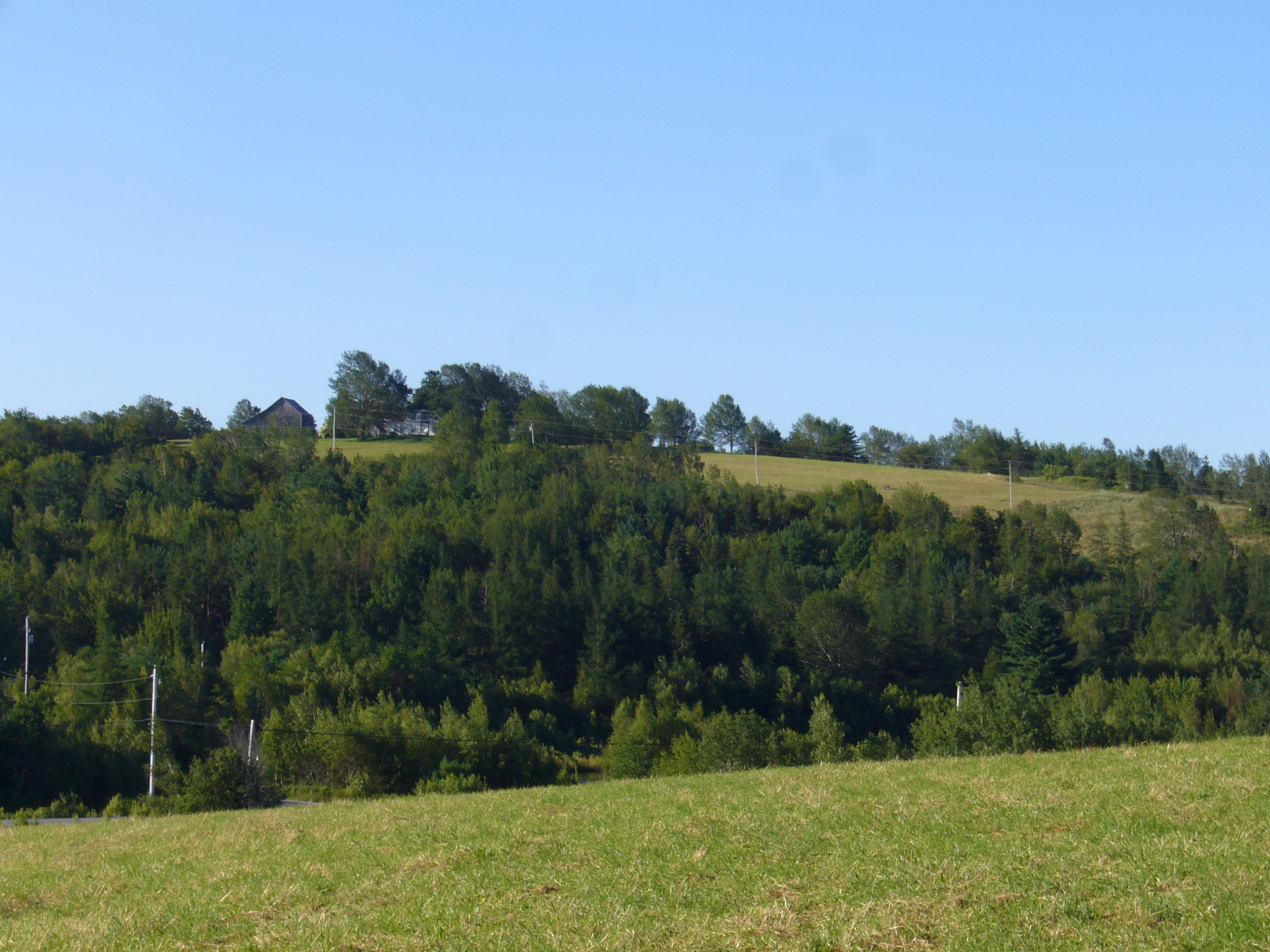 A view of the original drumlin cleared by George Michael Wile and his wife Lucinda Hirtle sometime in the 1830-40s. Taken by Blake Wile in August of 2006 and is in the article Waterloo, Nova Scotia